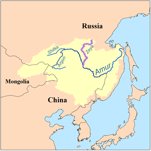 This is a map of the Amur River drainage basin with the Zeya River highlighted.